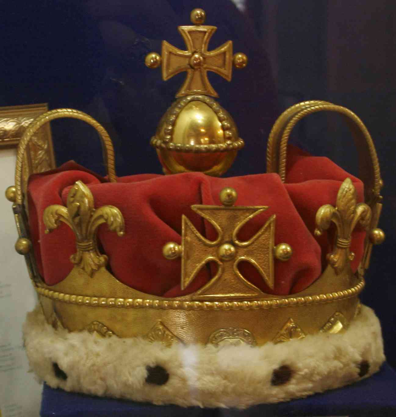 A Copy of the Crown of Frederick as Prince of Wales